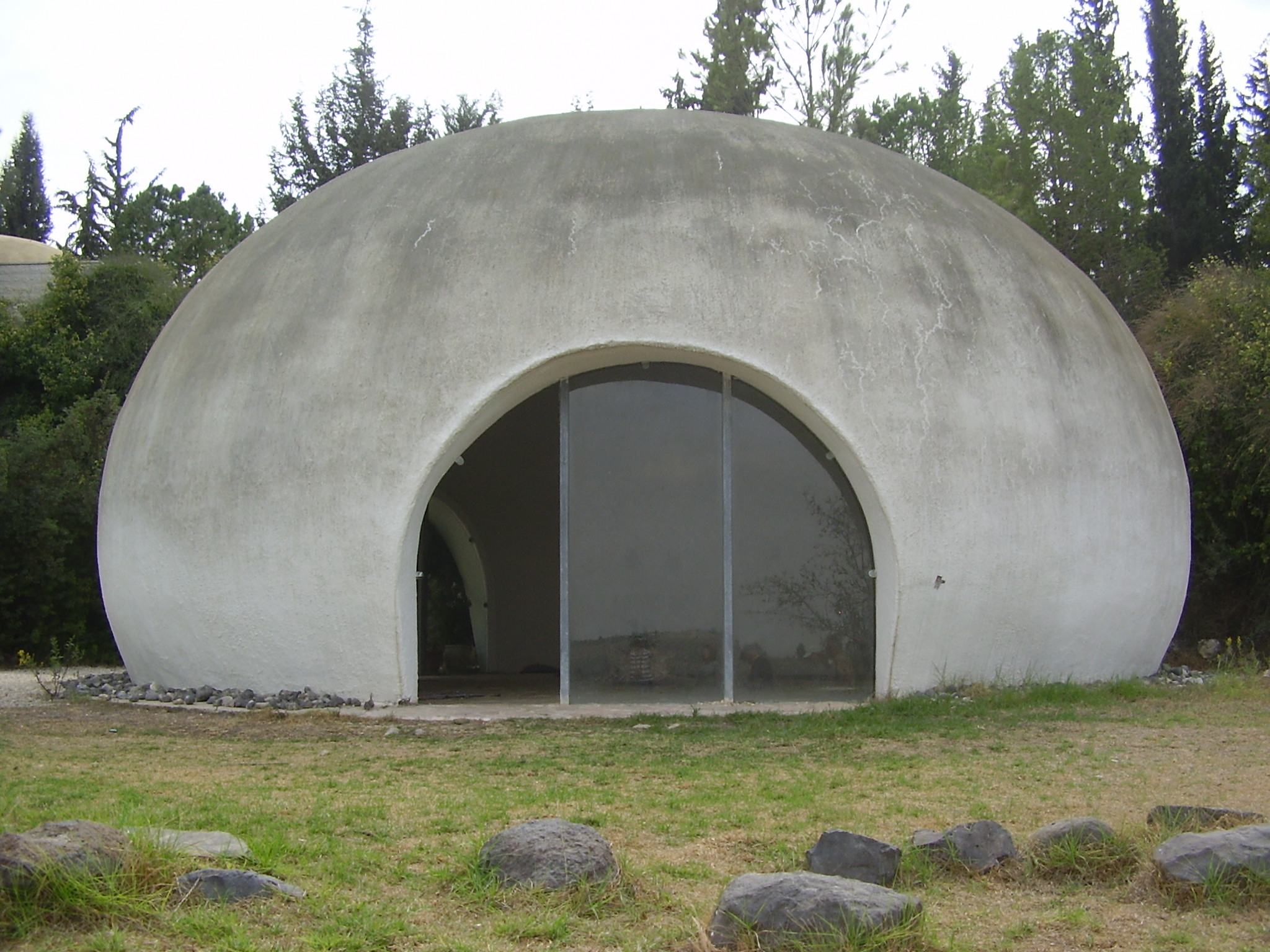 house of silence (dumia-sakina house) in neve shalom, israel